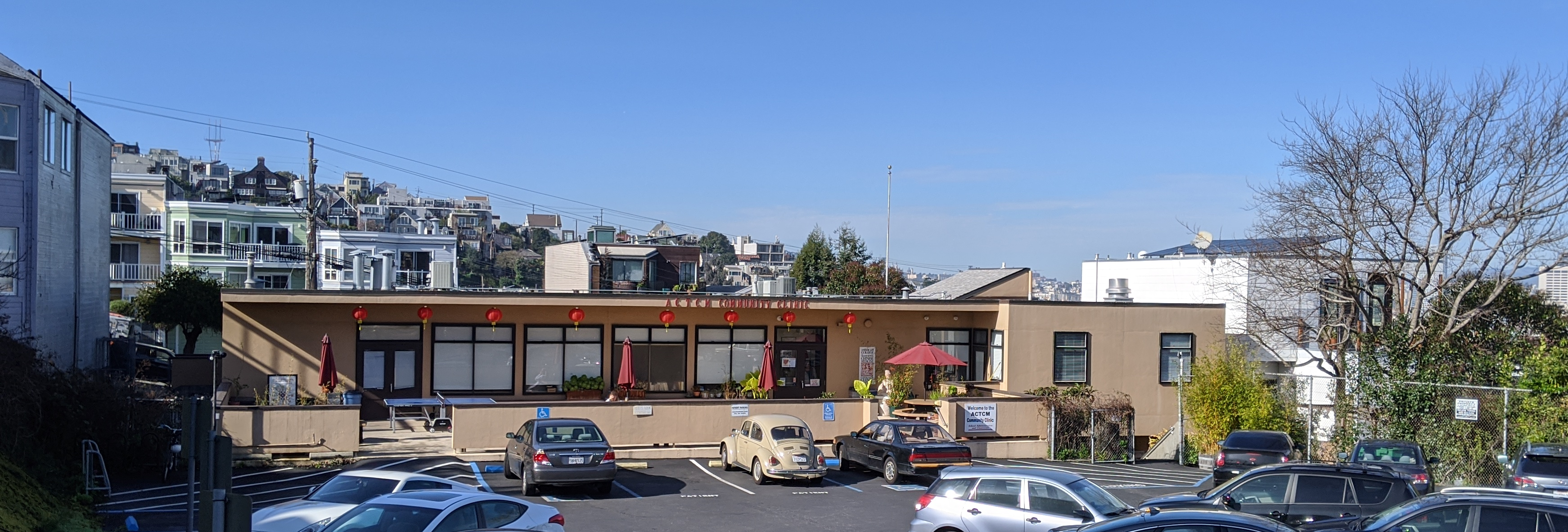 Rear side of the building of American College of Traditional Chinese Medicine (ACTCM, part of the California Institute of Integral Studies) in San Francisco's Potrero Hill neighbourhood, with the entrance to its community clinic